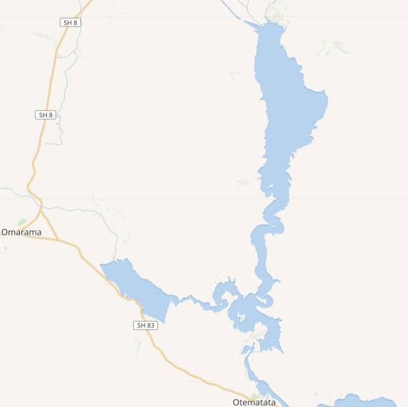 Map showing the shape of Lake Benmore, New Zealand. © OpenStreetMap contributors